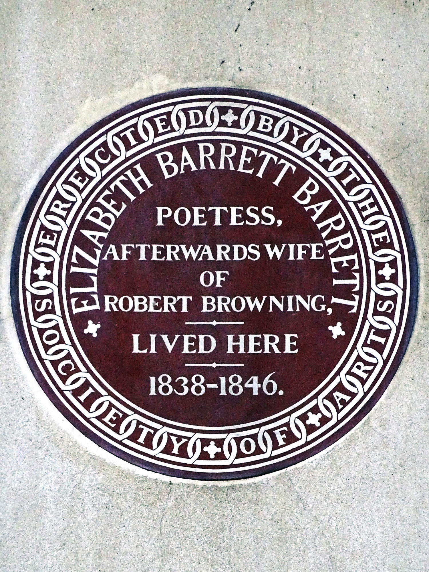 Brown plaque erected in 1899 by (Royal) Society of Arts at 50 Wimpole Street, Marylebone, London W1G 8SQ, City of Westminster. Re-erected with supplementary inscription at street level by London County Council in 1936.